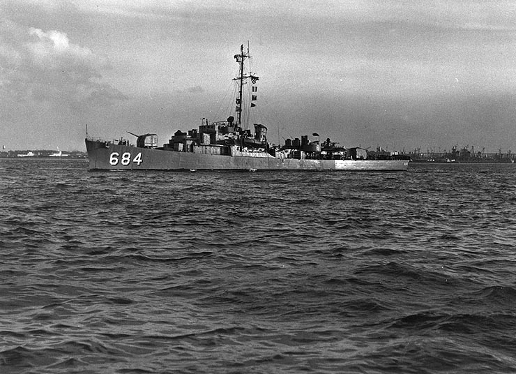 The U.S. Navy destroyer escort USS DeLong (DE-684) underway, circa the 1950s or early 1960s.